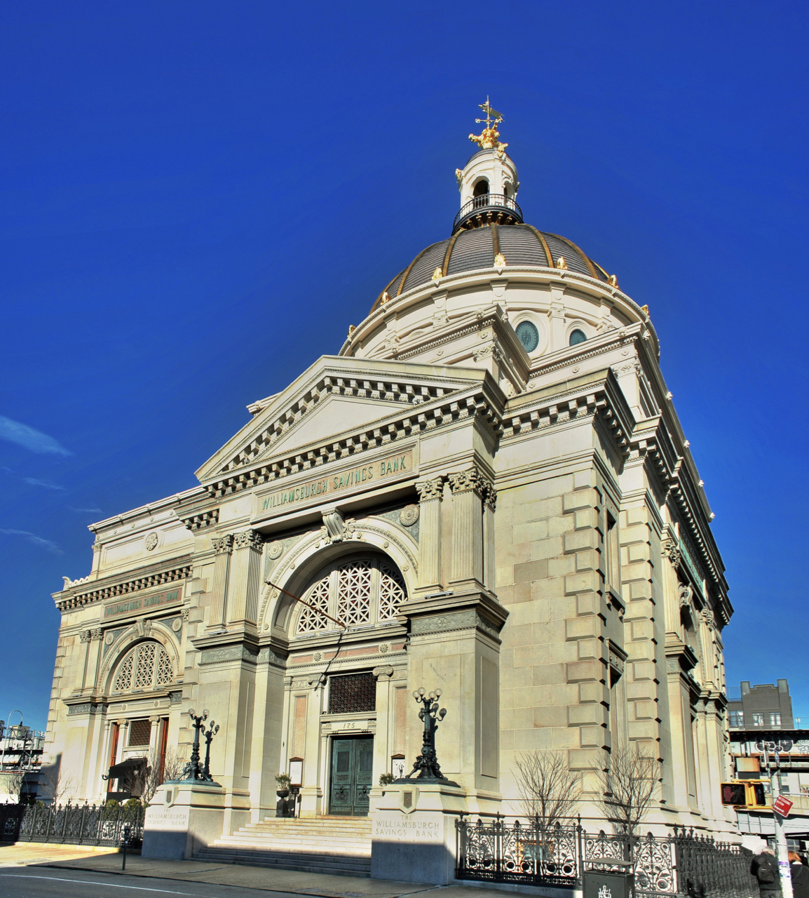 Williamsburgh Savings Bank, Brooklyn, NY 2015